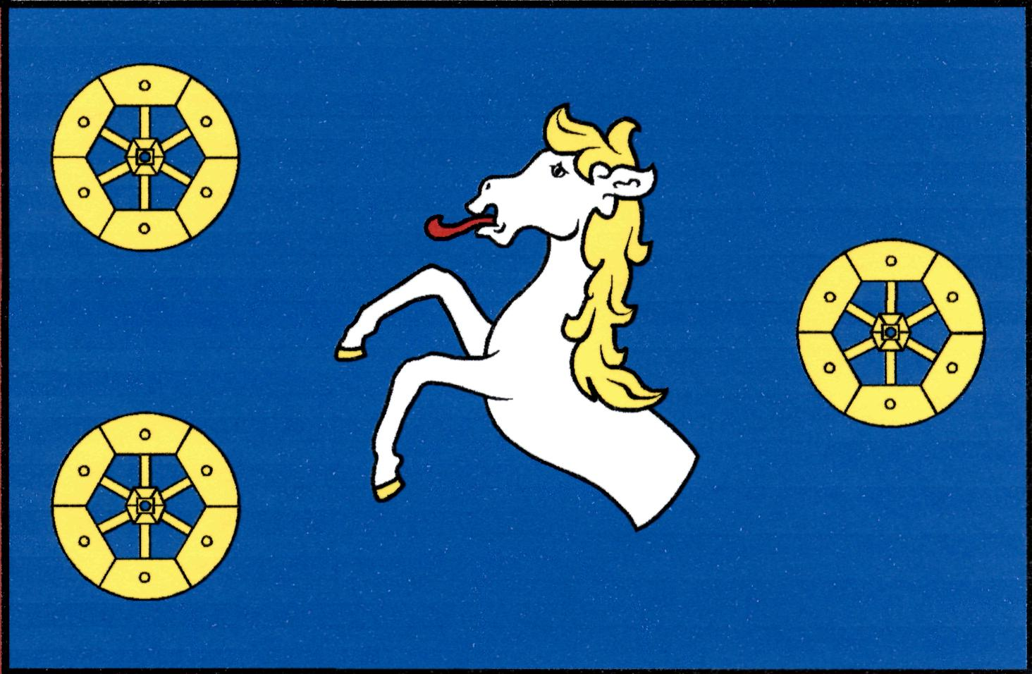 Municipal flag of Všestary , District Prague-East, Czech Republic